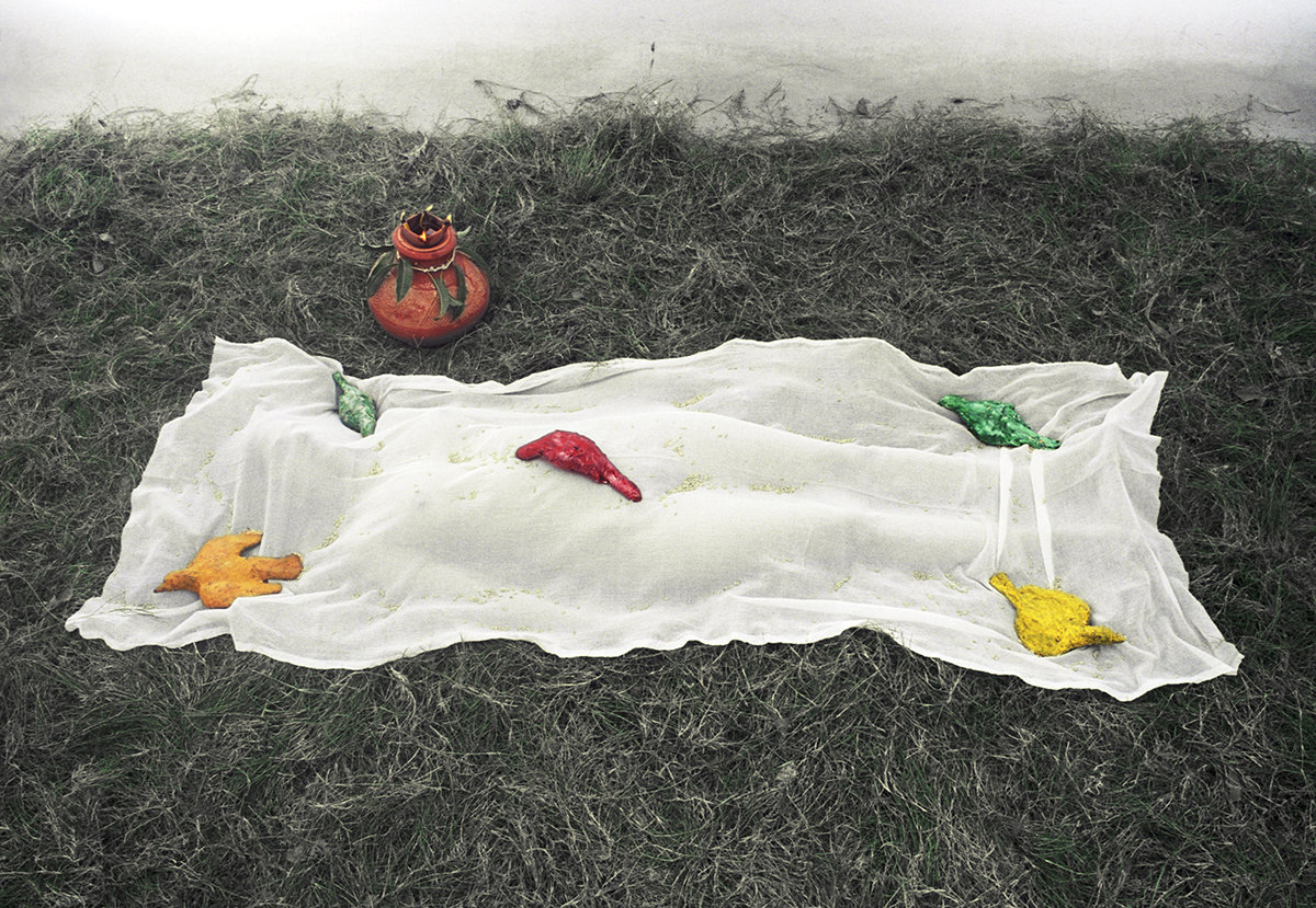 This work is from Conceptual Art Collection by Contemporary Indian Artist Diwan Manna, from Shores of the Unknown